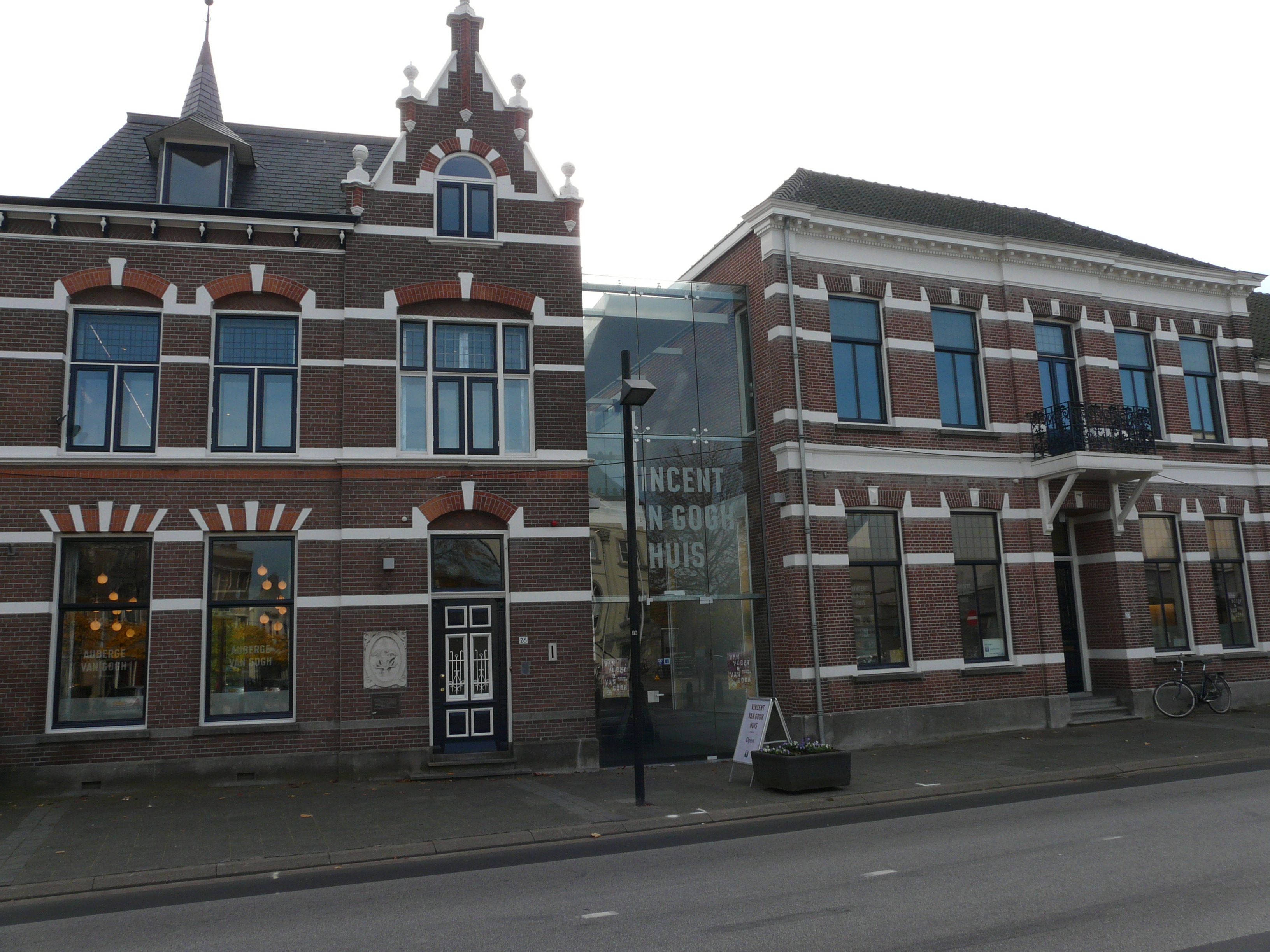 Part of the Van Goghhuis in Zundert